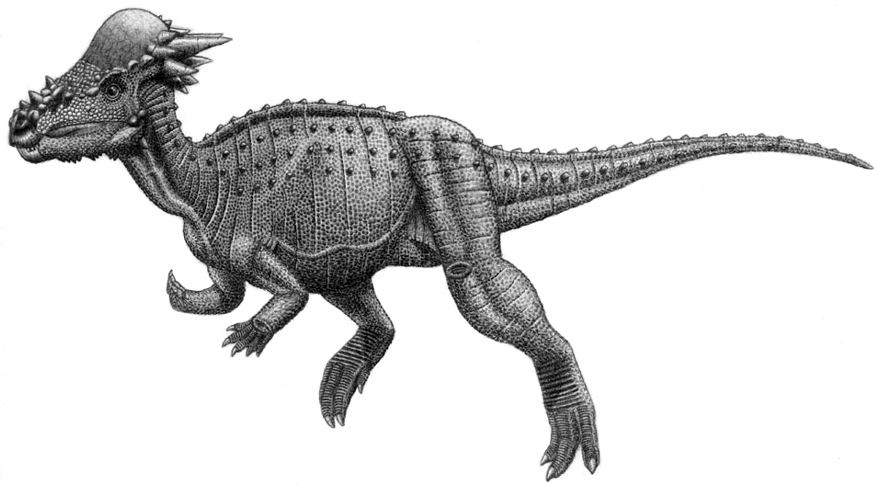 Sketch of a pachycephalosaur of uncertain systematical position and still (2003) not formally described. Its remains were found in the "Sandy Quarry" of the Hell Creek Formation, near Buffalo, South Dakota (USA). Initially reconstructed as Pachycephalosaurus wyomingensis by Michael Triebold later many attendees of an international symposium referred the remains to Stygimoloch spinifer because of the prominent spikes on the back of the skull.